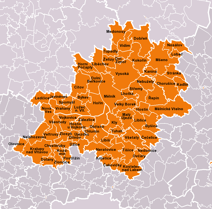 Municipalities of Mělník District as of January 1, 2010 (69 municipalities in total). White lines of variable thickness show boundaries of municipalities, administrative areas, districts and regions.